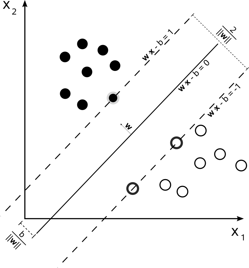 Graphic showing the maximum separating hyperplane and the margin.